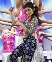 Sanchita Shetty performing at the 61st Filmfare Awards South